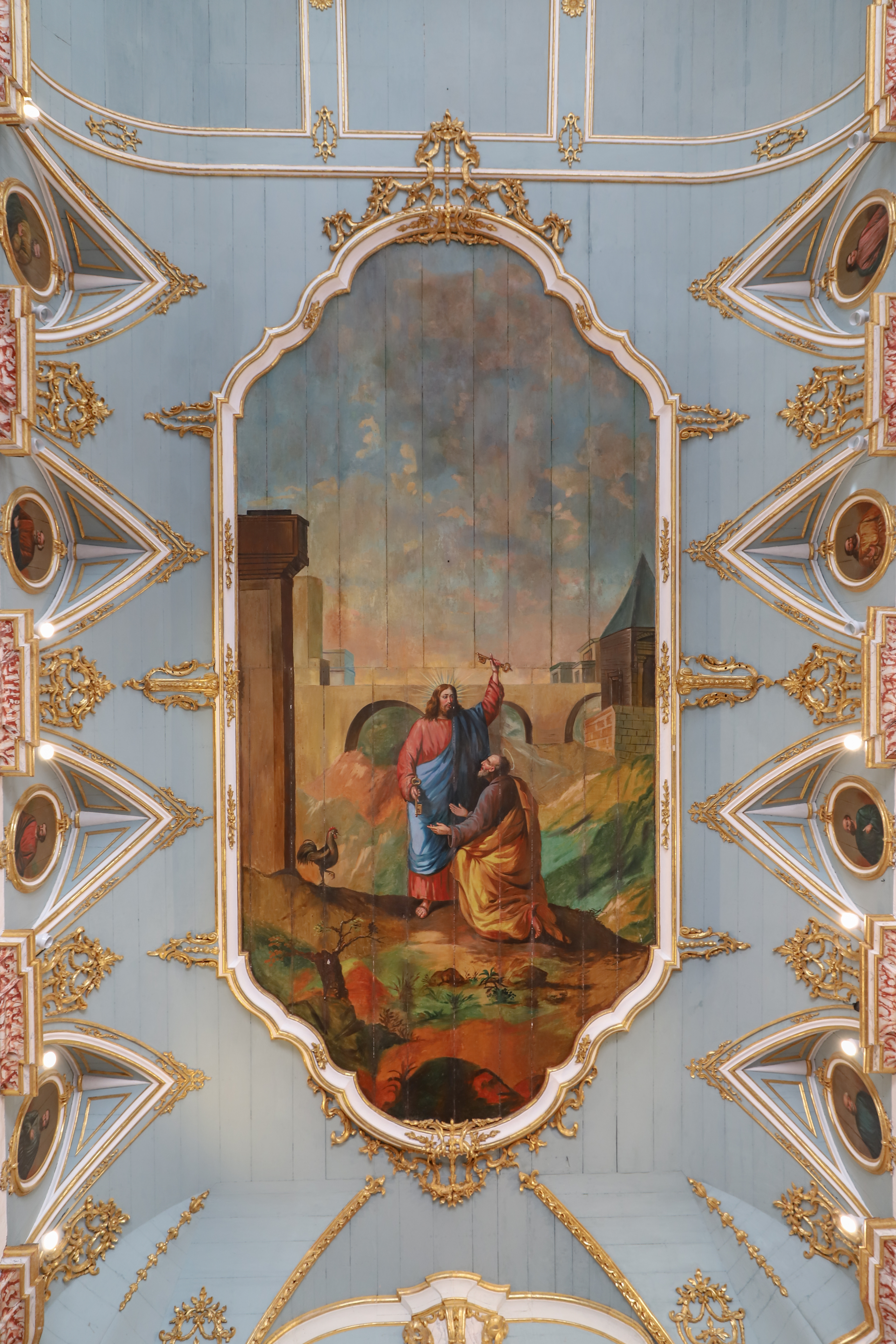 Painting of ceiling of nave, Igreja de São Pedro dos Clérigos (Church of Saint Peter of the Clergymen), Salvador, Bahia, Brazil.